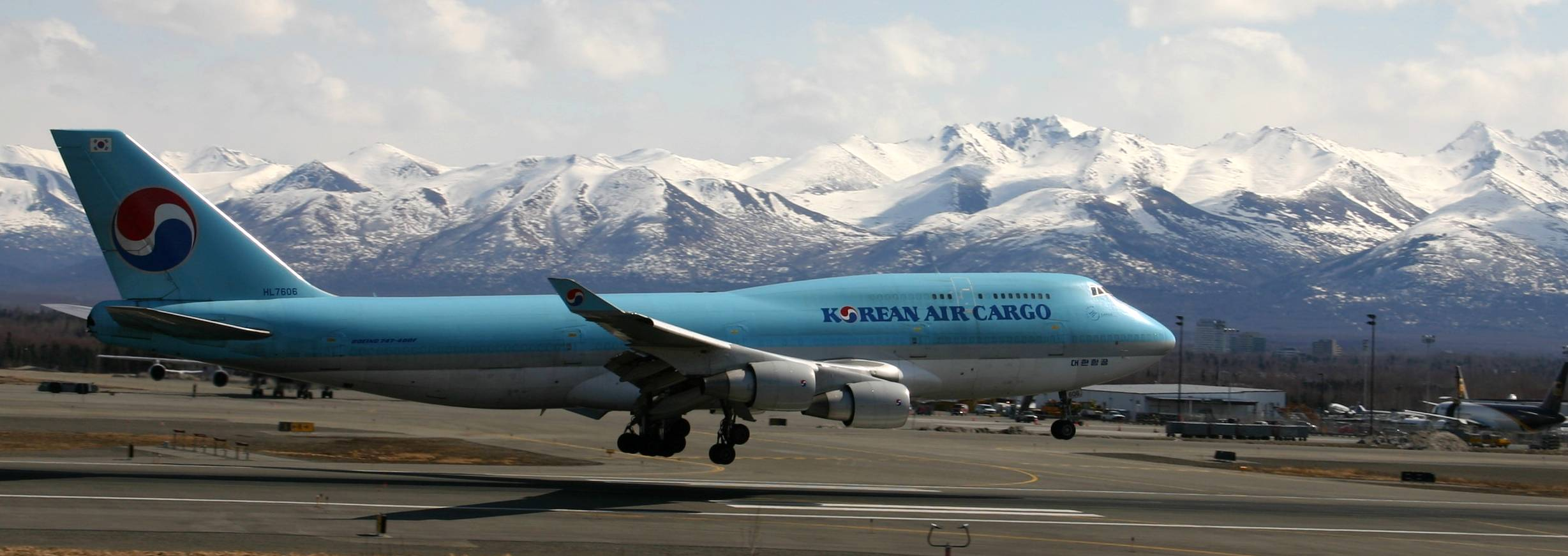 Taken on a nice day in early May 2008 at Ted Stevens International Airport, Anchorage, Alaska.